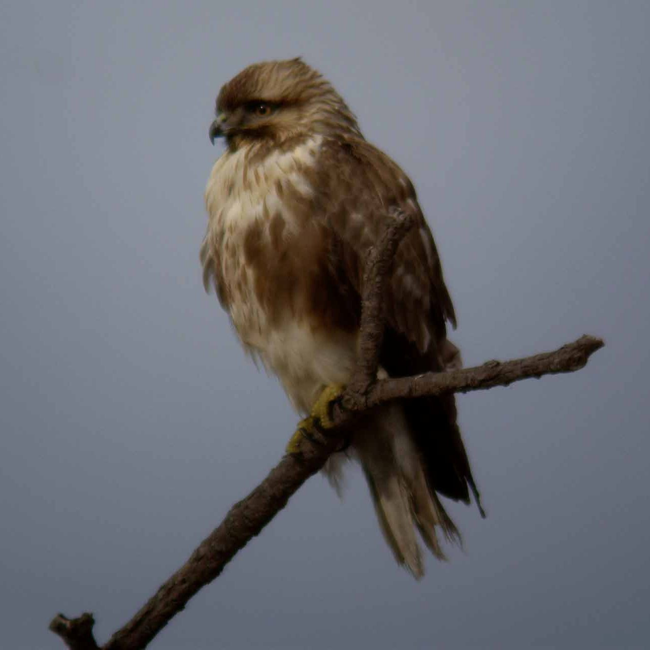 Buteo japonicus(Eastern Buzzard) It takes a picture in the Ukishimagahara Nature Park.